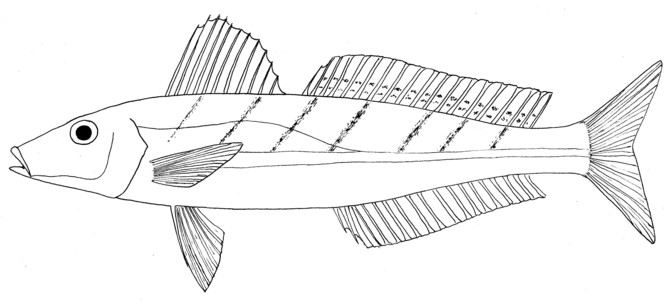 A hand drawn diagram of the Southern school whiting (Sillago bassensis) done in pen and pencil. Based on Grant (1962) and partially on Swainston (1986)